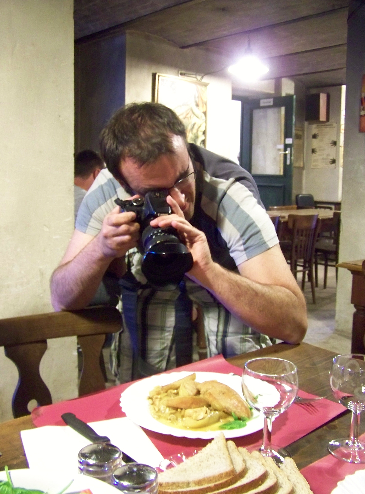 Wiki-photographer in action in the ferme castrale of Hermalle-sous-Huy near Liège in Belgium.